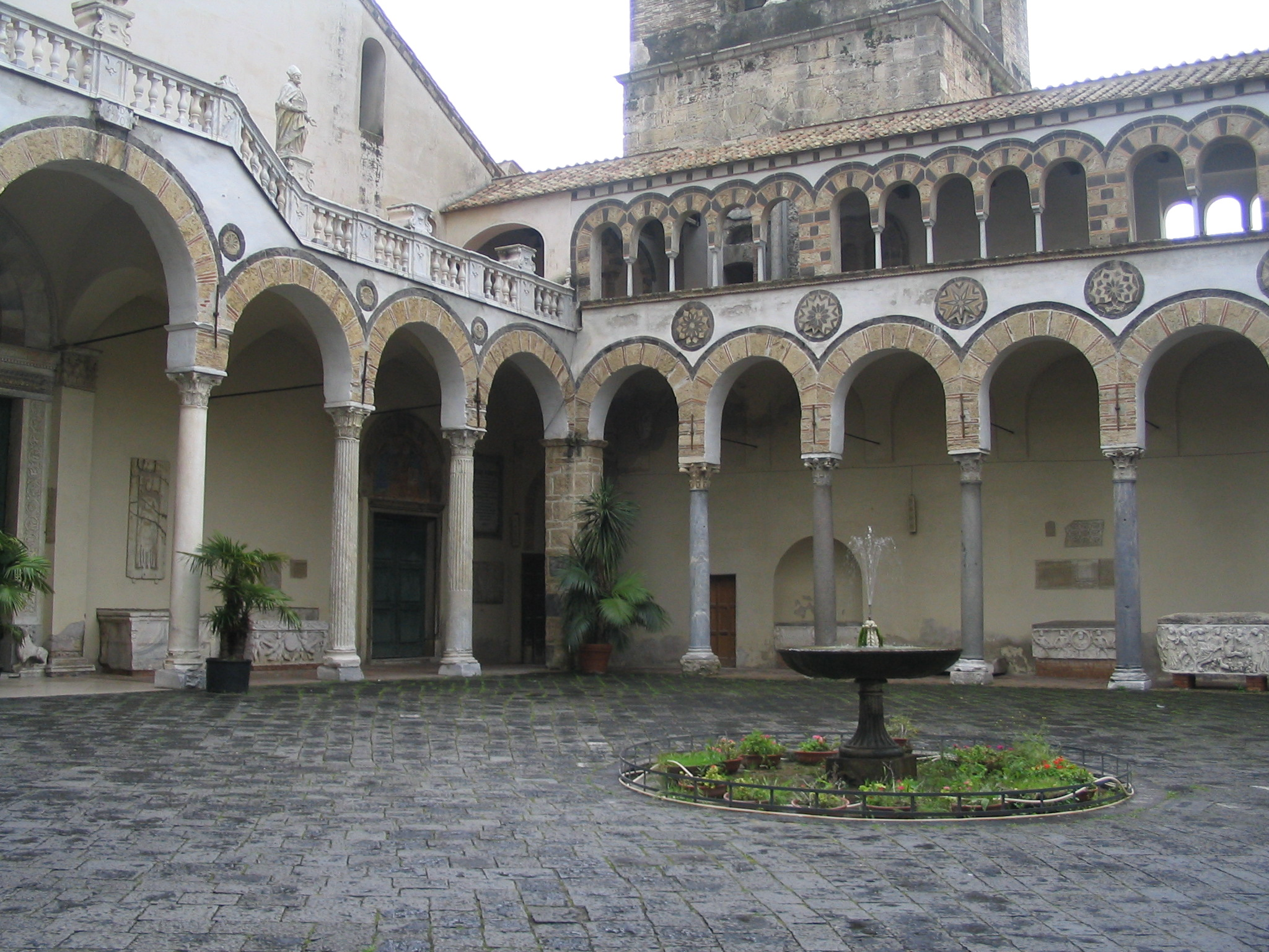 The inner courtyards of the cathedral of Salerno, Italy